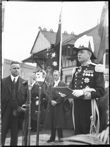 Lord Wakehurst (right) and Sir Bertram Stevens (left) upon Wakehurst taking up the NSW Governorship in 1937.